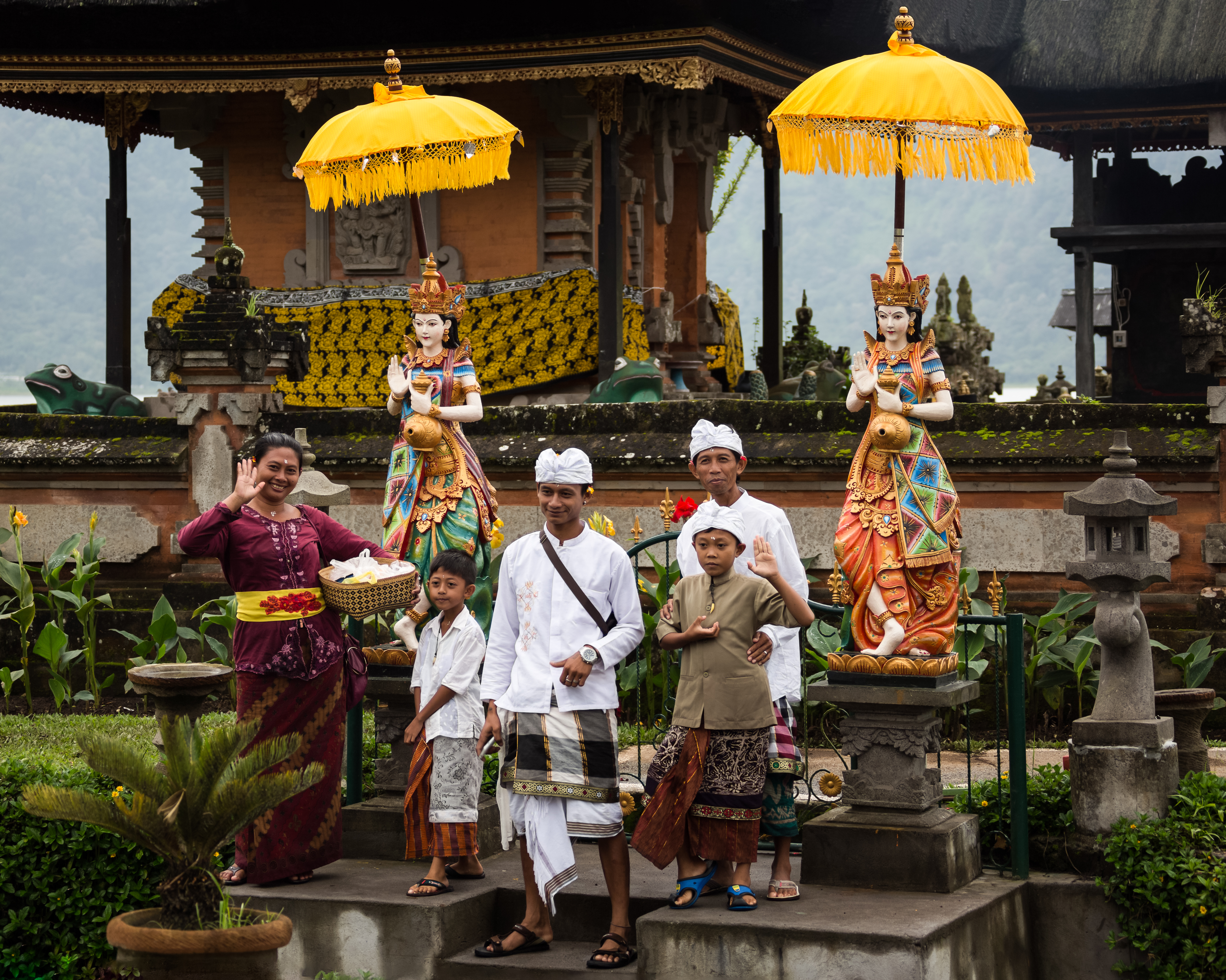 Bratan, Bali, Indonesia: Balinese family after the Hindu worship service ("puja") in Pura Ulun Danu Bratan. The wet rice grains on the foreheads are called "Bija", meaning "God has blessed us."